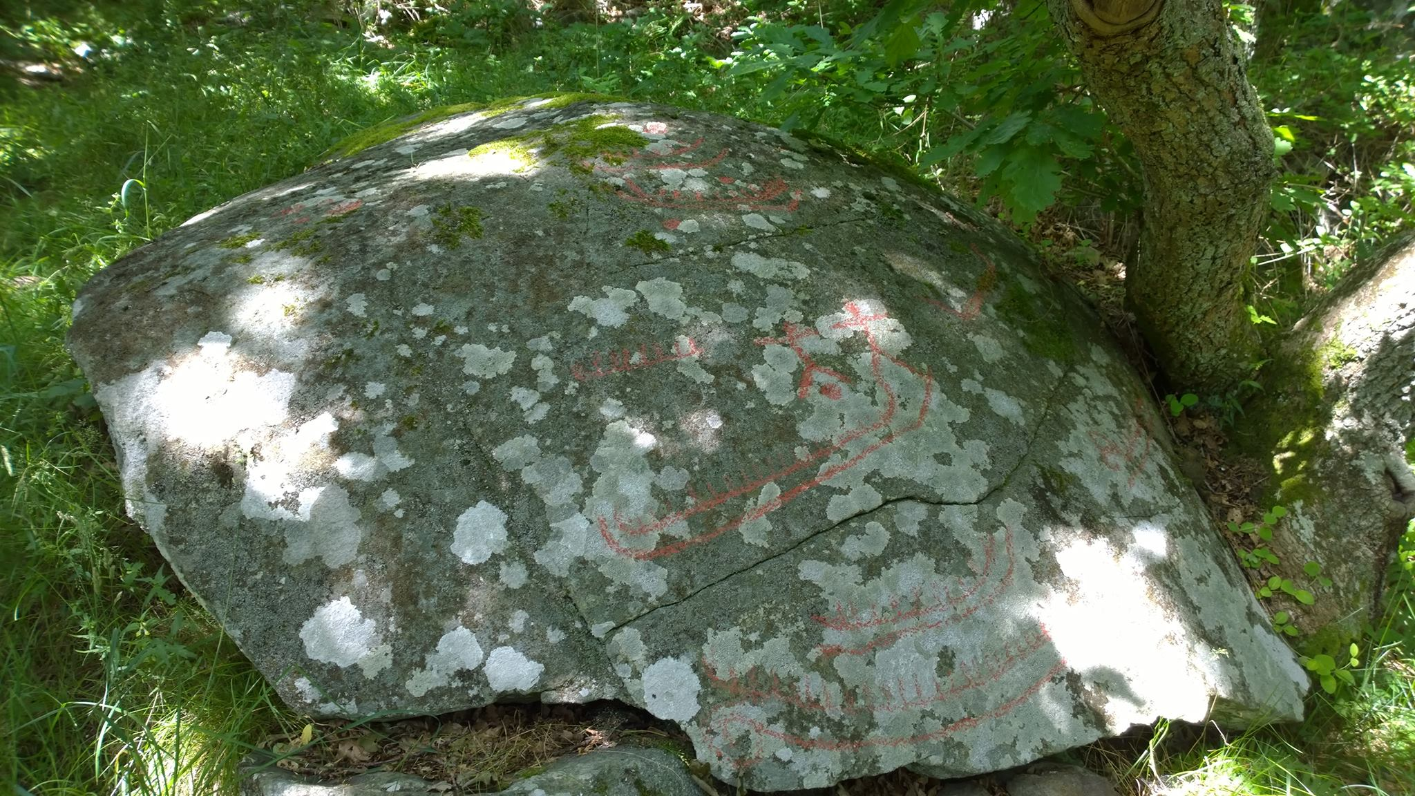 Petroglyph from bronze age, Halsbäck, Tjörn.